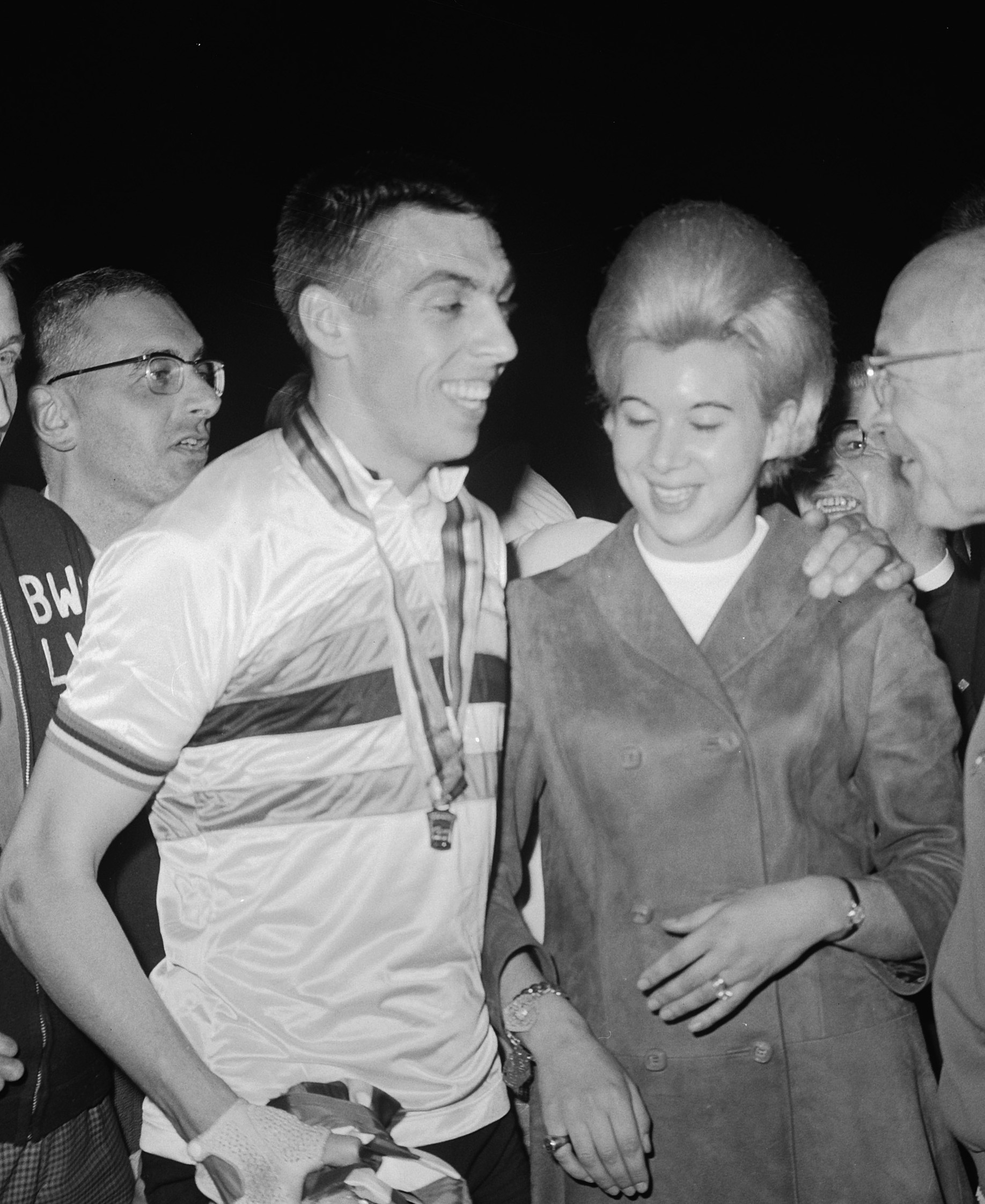 WK Wielrennen op de baan sprint profs finale. Patrick Sercu gefeliciteerd door echtgenote